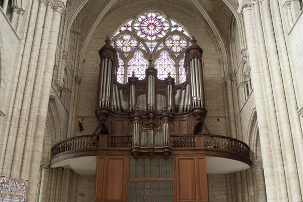 Sens; Cathédrale Saint-Etienne; Bourgogne, Yonne; France; ref: PM_103540_F_Sens; Cultural heritage; Cultural heritage/Cathedral; Europe/France/Sens; Wiki Commons; photo: Paul M.R.Maeyaert; © Paul M.R. Maeyaert